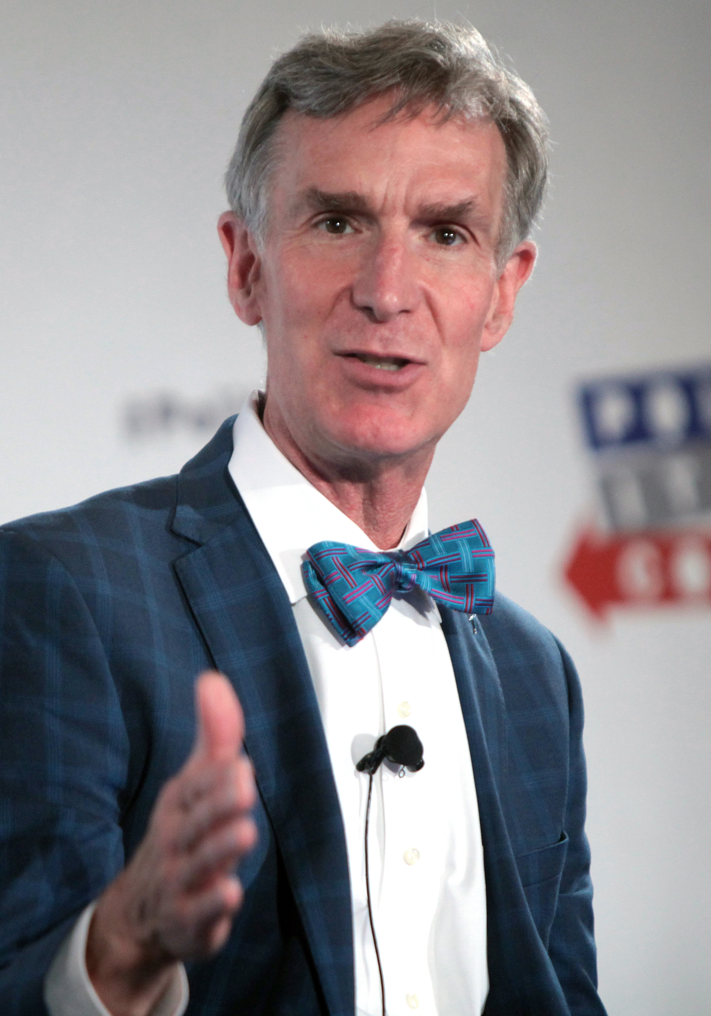 Bill Nye speaking at Politicon in Pasadena, California.